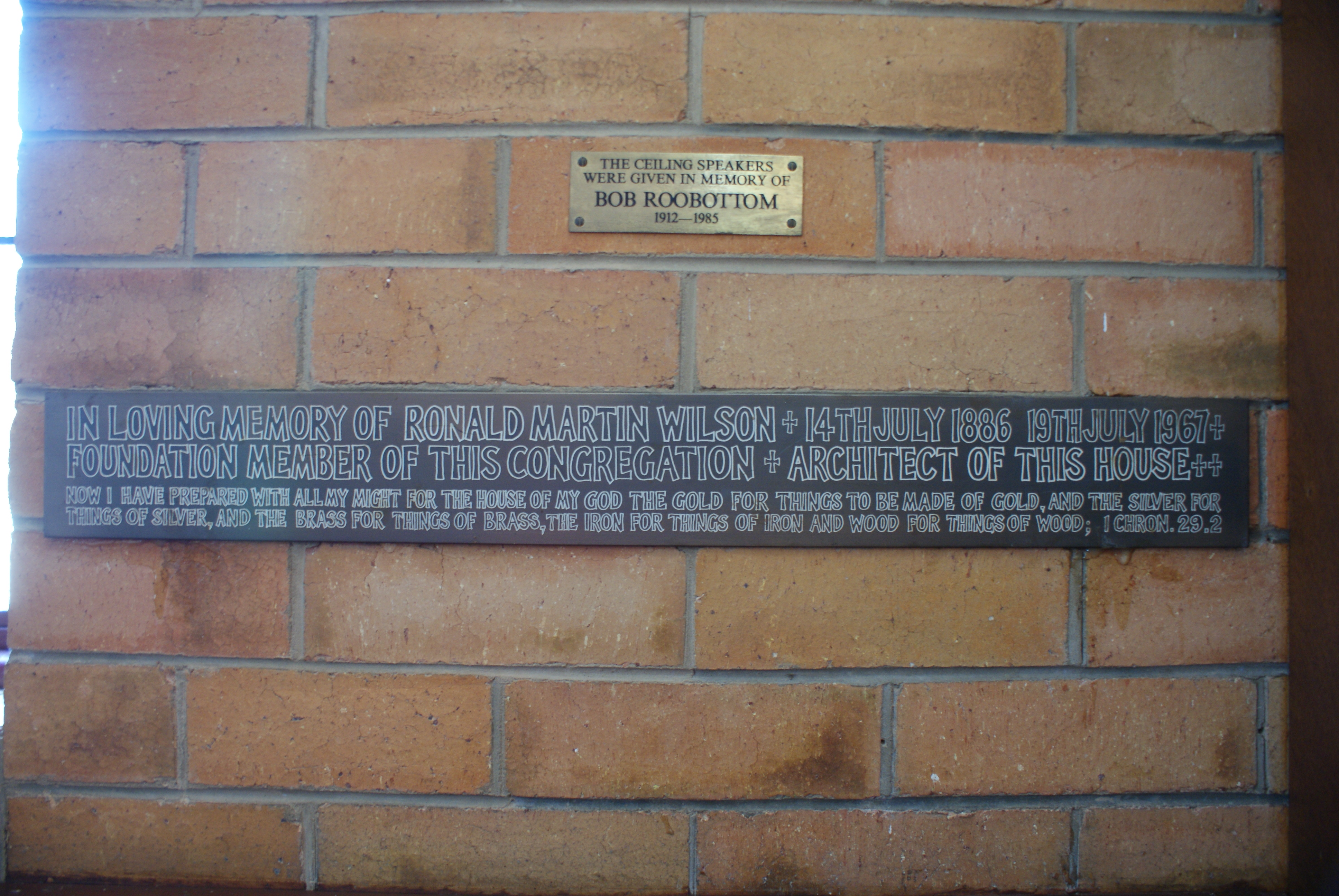 Plaque to Ronald Martin Wilson for designing the church as honorary architect of the Presbyterian Church of Queensland